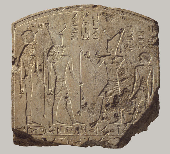 Ancient Egyptian donation stela of pharaoh Shebitqo of the 25th Dynasty, is depicted while making donations to the goddess Hathor and to Horus of Pharbaithos (a local form of Horus). Behind the pharaoh stands the local prince of Pharbaithos, the chief of the Meshwesh Patjenfi. Acc. No. 65.45